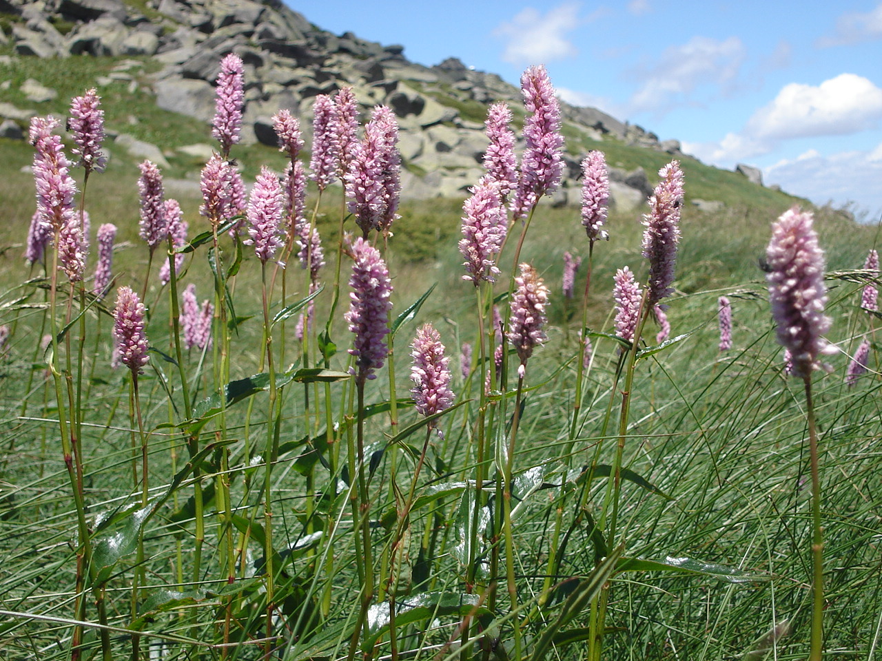 Vitosha mountain, Bulgaria (Polygonum bistorta)